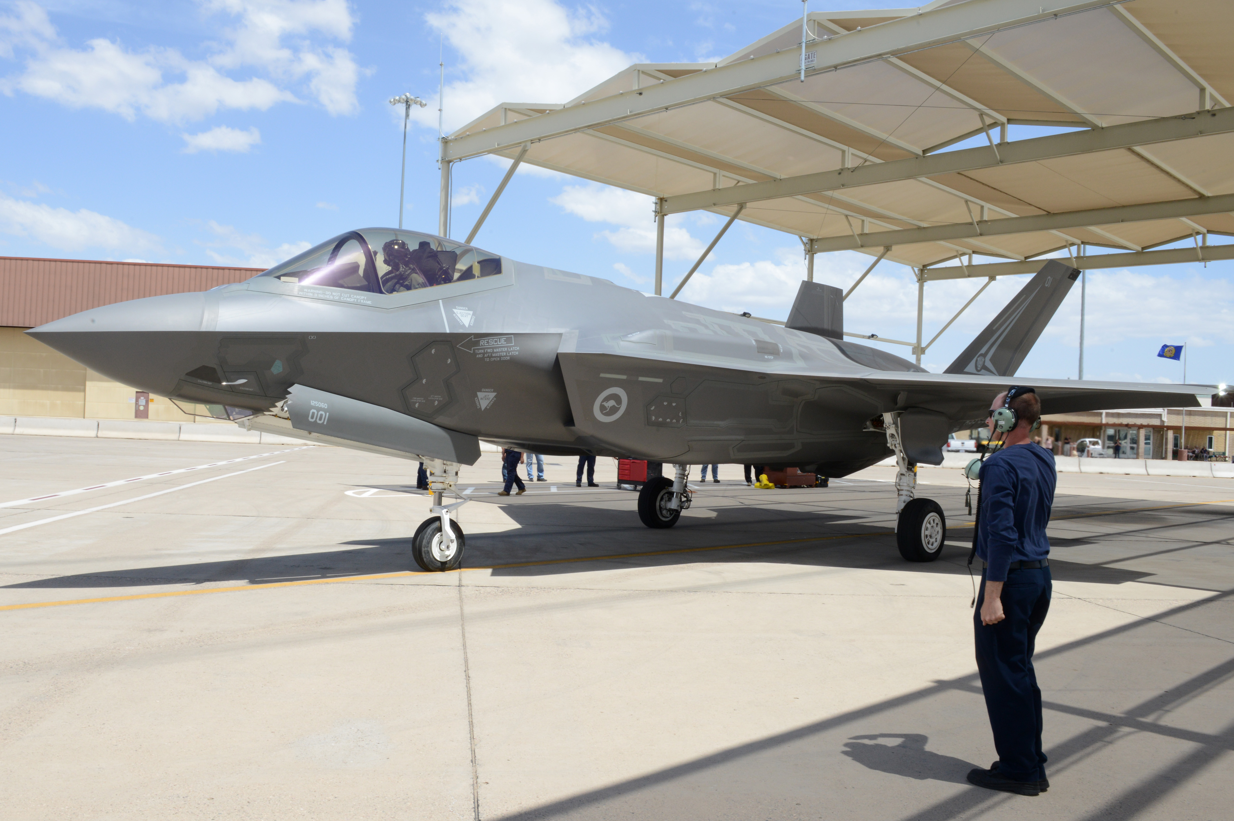 Royal Australian Air Force Maj. Andrew Jackson, 61st Fighter Squadron RAAF squadron leader, taxis out to the runway at Luke Air Force Base, Arizona, May 14, 2015. Jackson is the first Australian pilot to fly the F-35 at Luke. (U.S. Air Force photo by Senior Airman James Hensley)